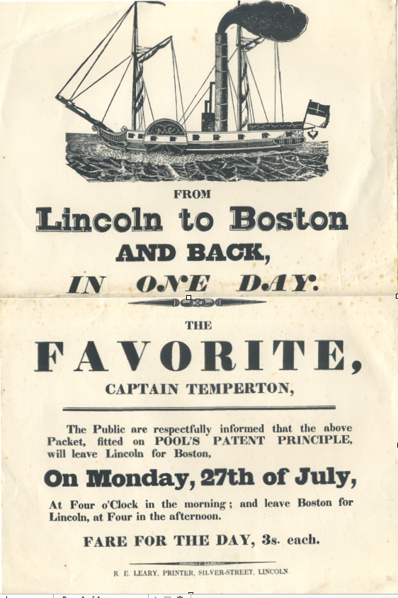 Poster for the Favorite Paddle Steamer, August 1828